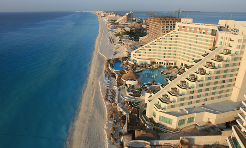 Photo of ME Cancun Hotel from the side.